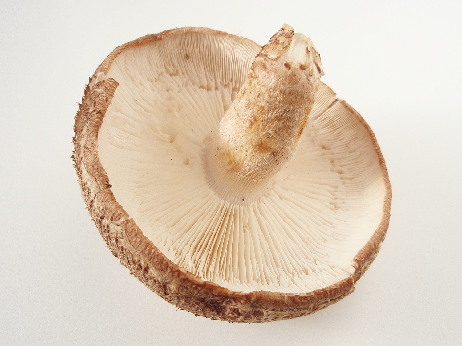 Shiitake. Binomial name: Lentinula edodes